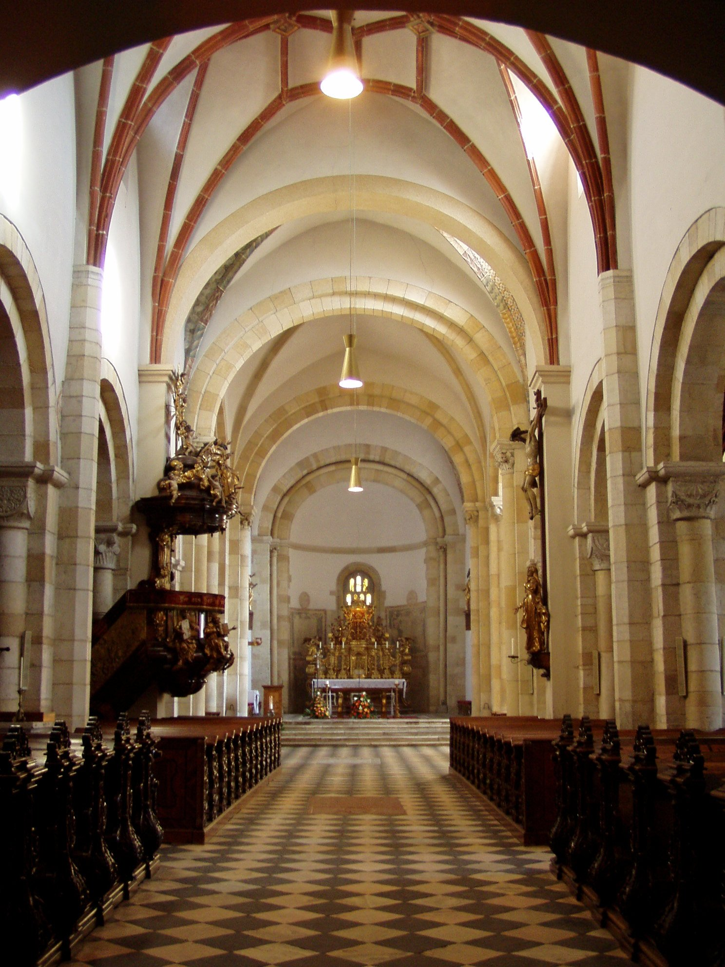 Benedictine Monastery of Sankt Paul im Lavanttal, Carinthia, Austria; Church